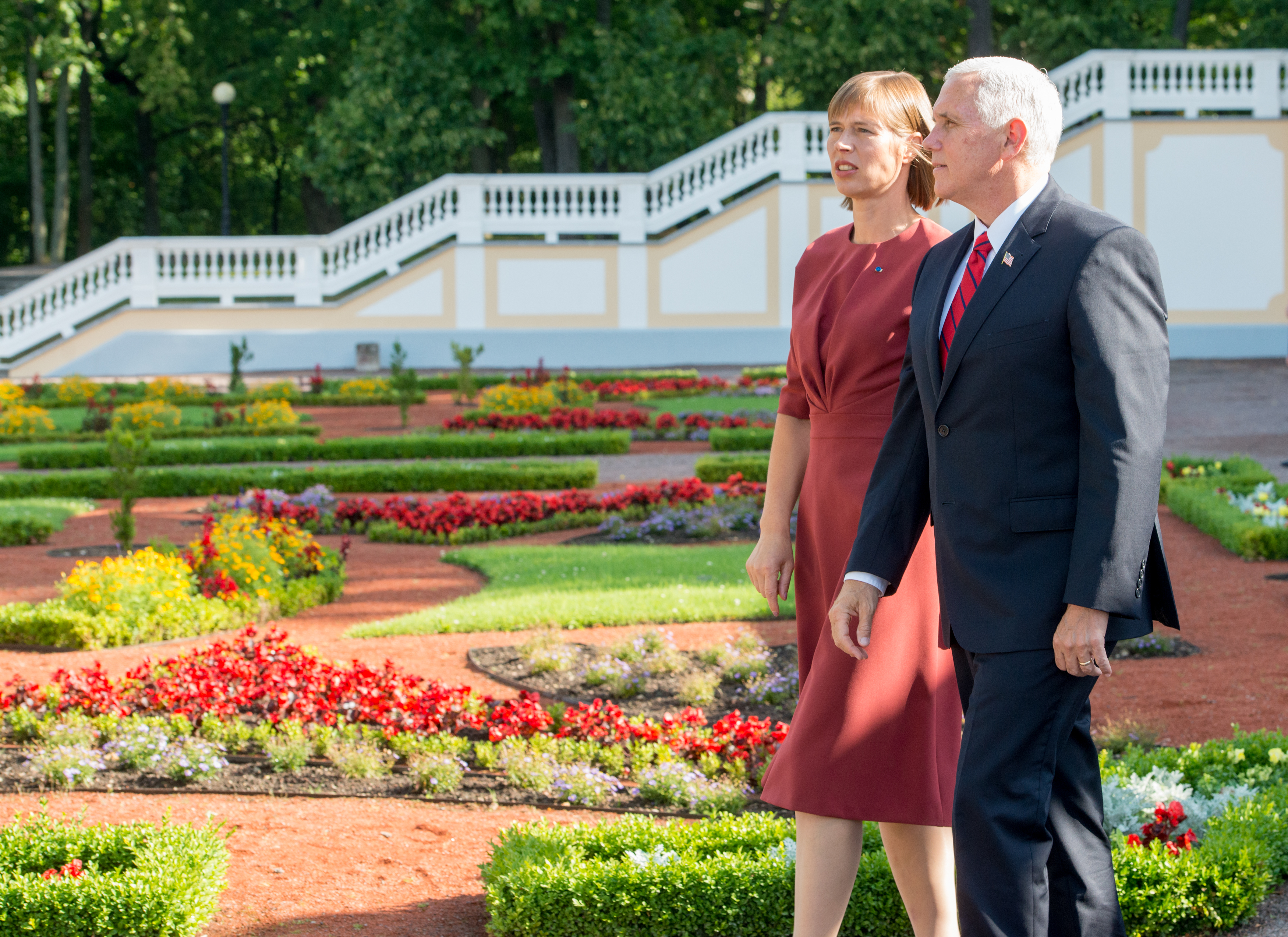 Photo: Raigo Pajula (Ministry of Foreign Affairs)